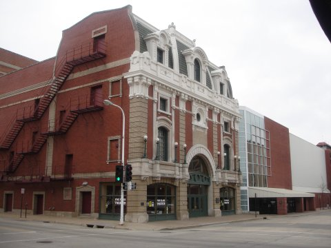 The Five Flags Center in Dubuque, Iowa. I took this photo in March of 2006. Jesster79 18:10, 12 March 2006 (UTC)